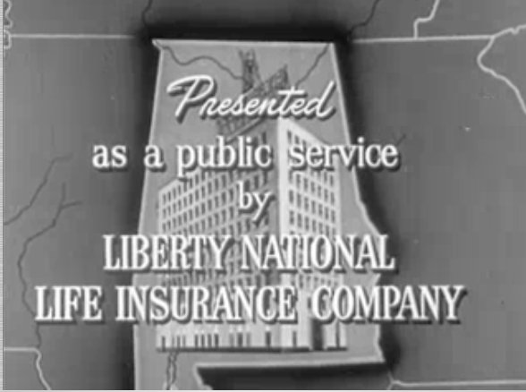 Screen capture from the 00:11 mark of the movie. Liberty National Life Insurance sponsored these newsreels.